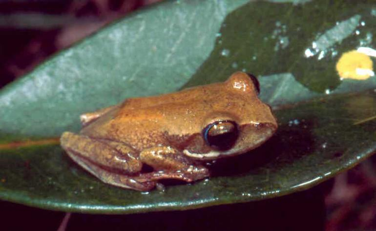 Ranomafana National Park Boophis rhodoscelis